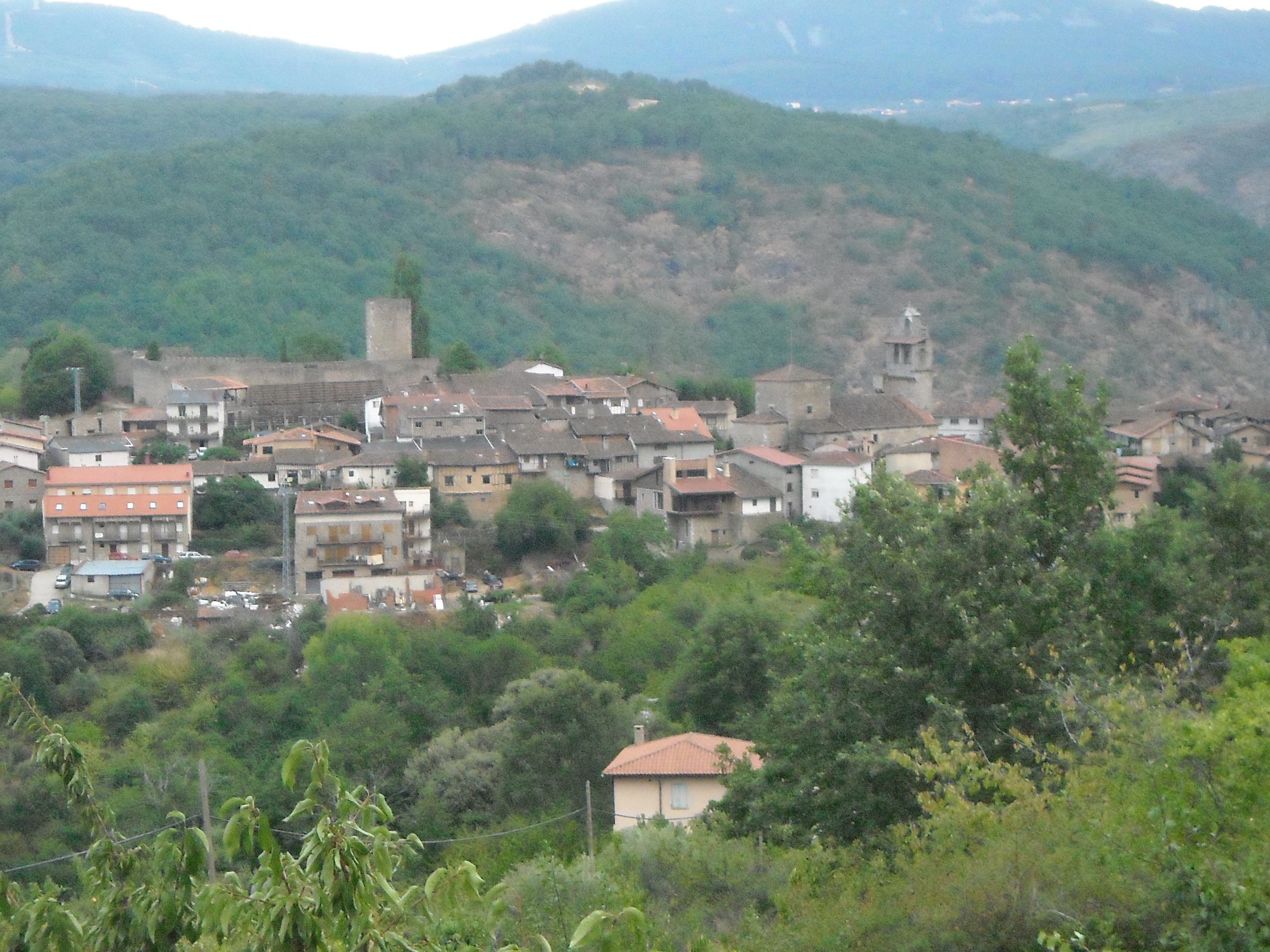 Panoramic view of San Martín del Castañar, Salamanca, Spain